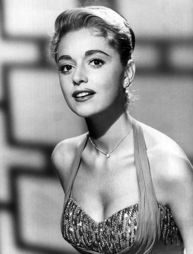 Photo of Anna Maria Alberghetti from an appearance on the Bob Hope Buick special in 1958.